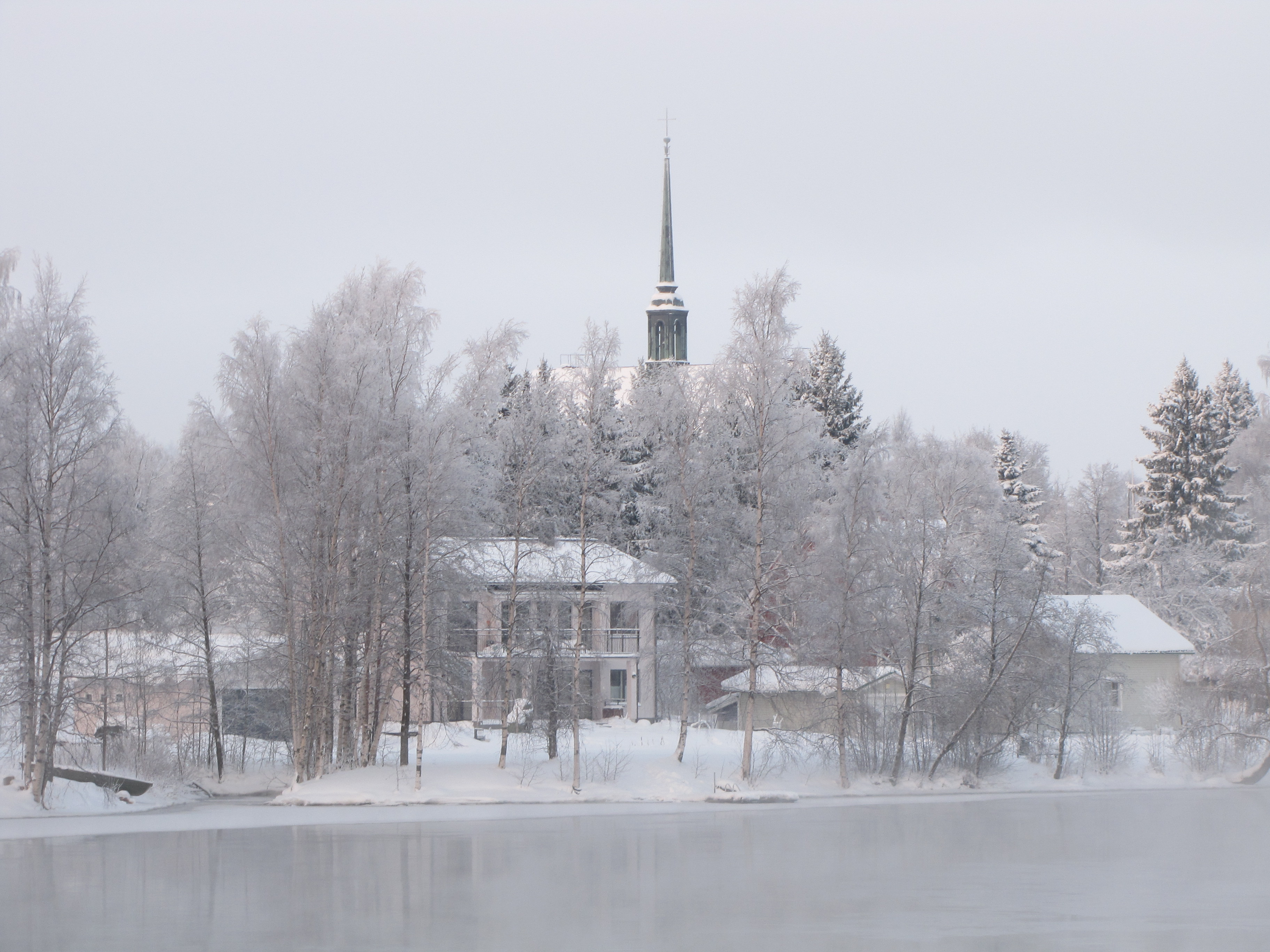 Bank of Vuoksi river with Tainionkoski church in the background.